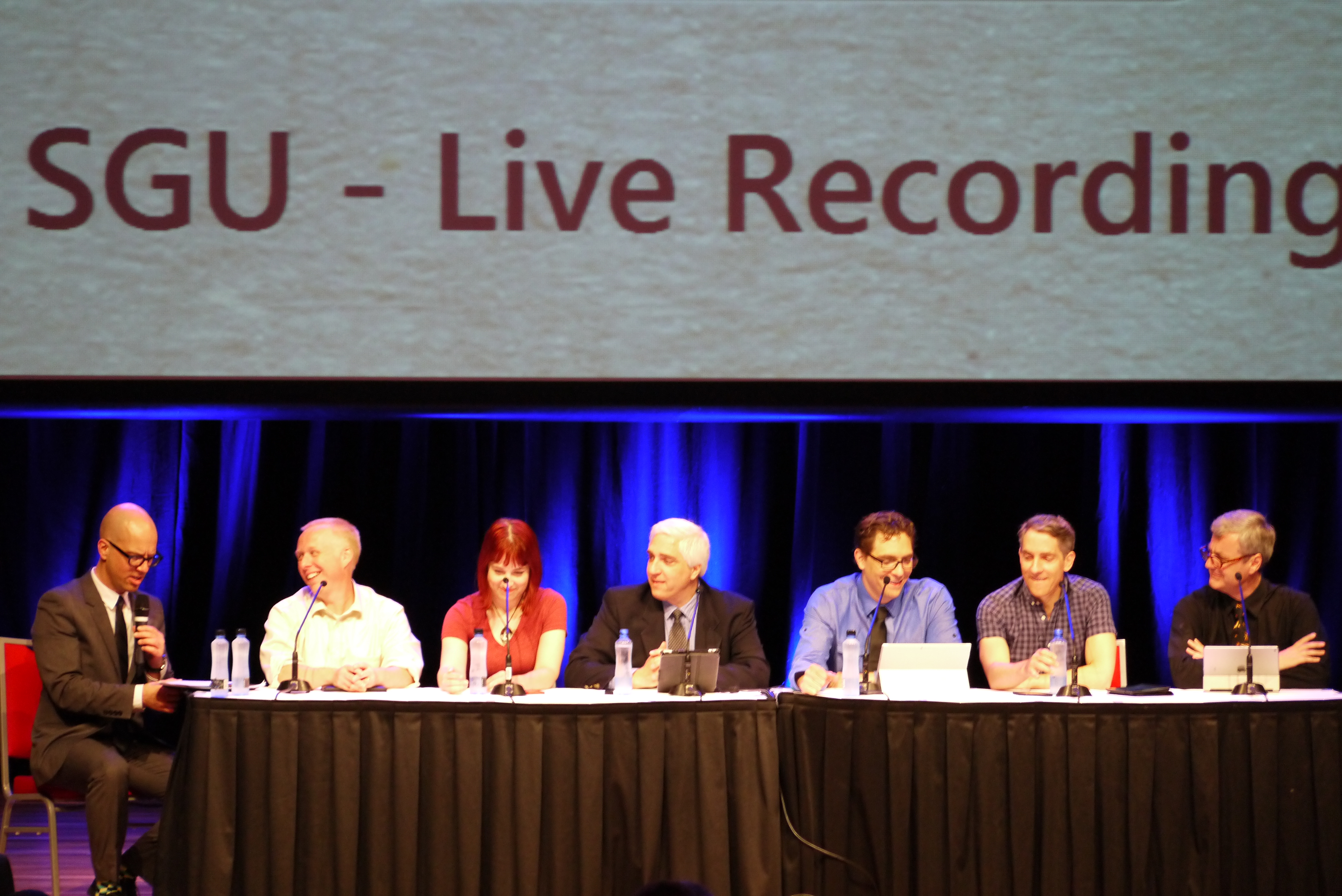 The SGU record a live podcast with guests George Hrab and Richard Saunders, featuring left to right; George Hrab, Evan Bernstein, Rebecca Watson, Steven Novella, Jay Novella, Bob Novella, Richard Saunders. Taken at the Australian Skeptics National Convention in Chatswood Sydney 29th November 2014.